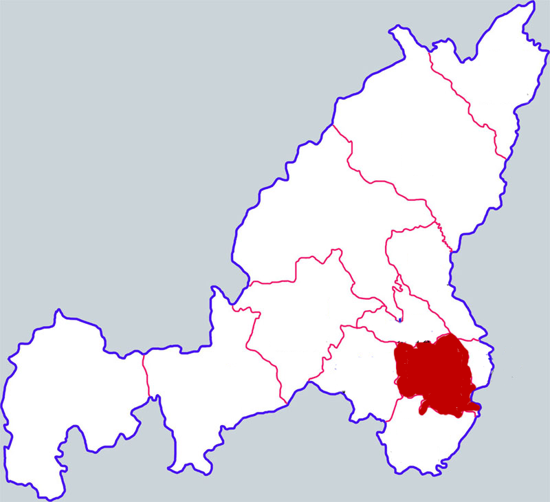 Location of Suide county in Yulin city, Shaanxi province, China